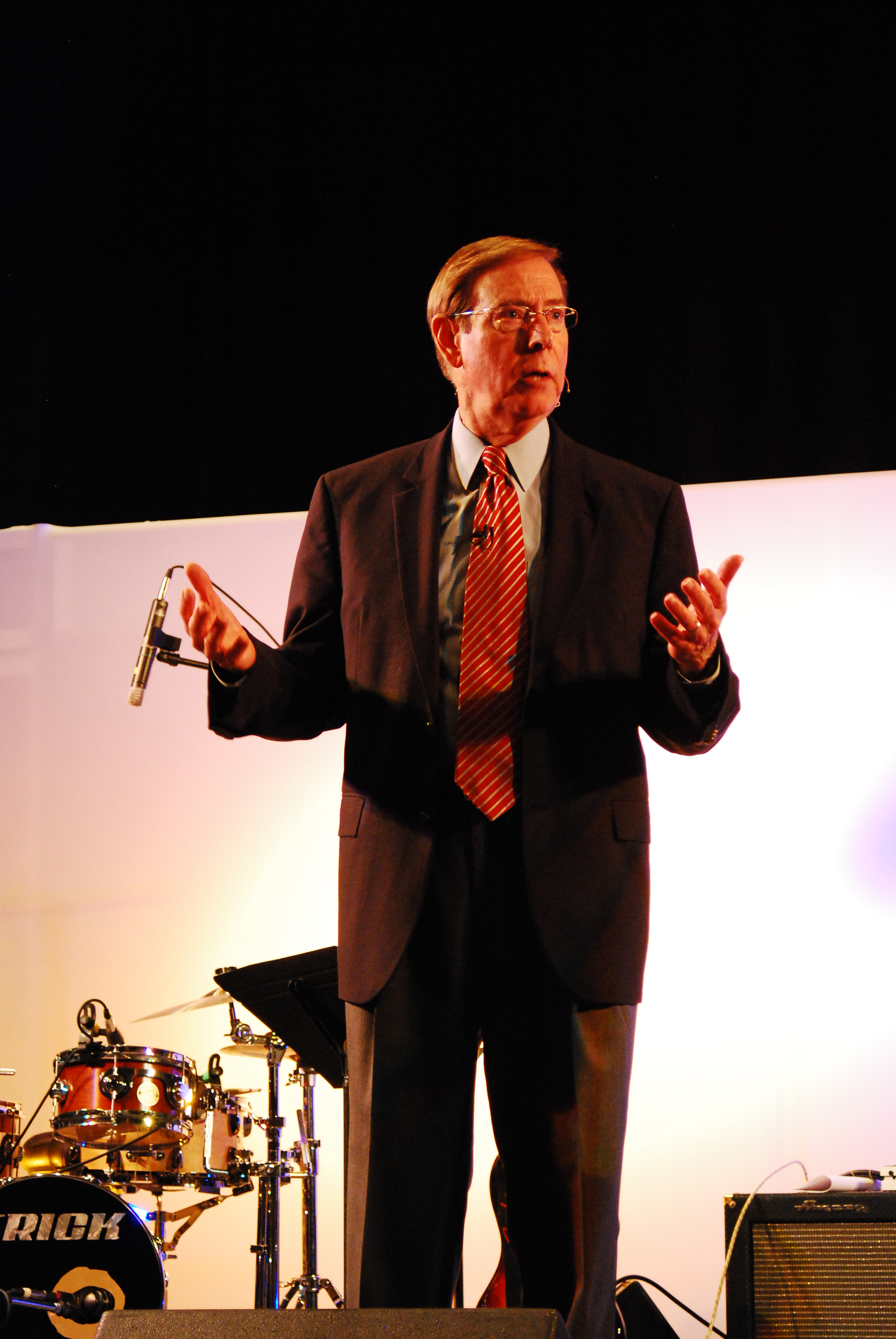 Gary Chapman speaking at an Association of Marriage and Family Ministries conference in 2010.